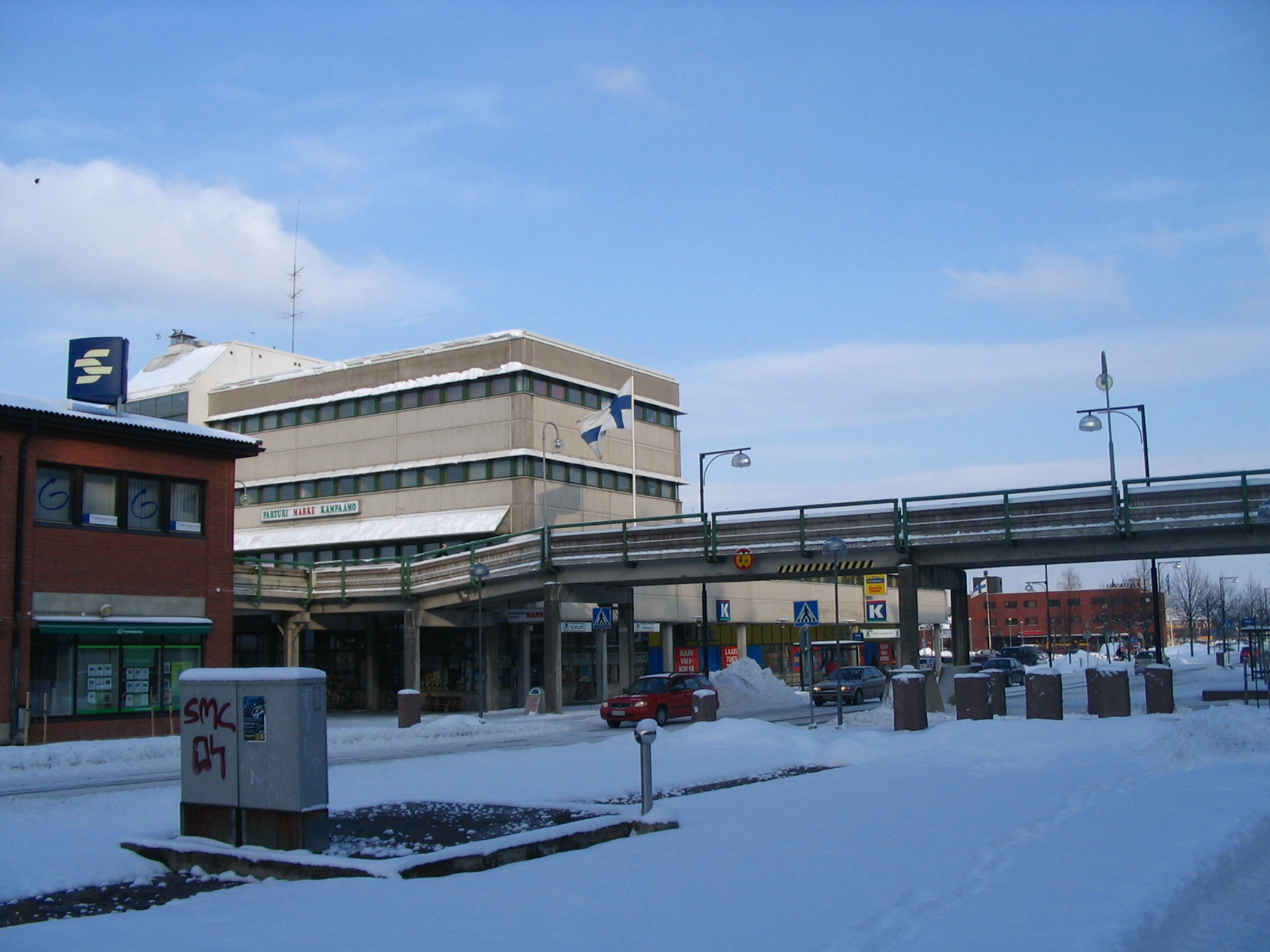 Centre of Kaarina, Finland in winter